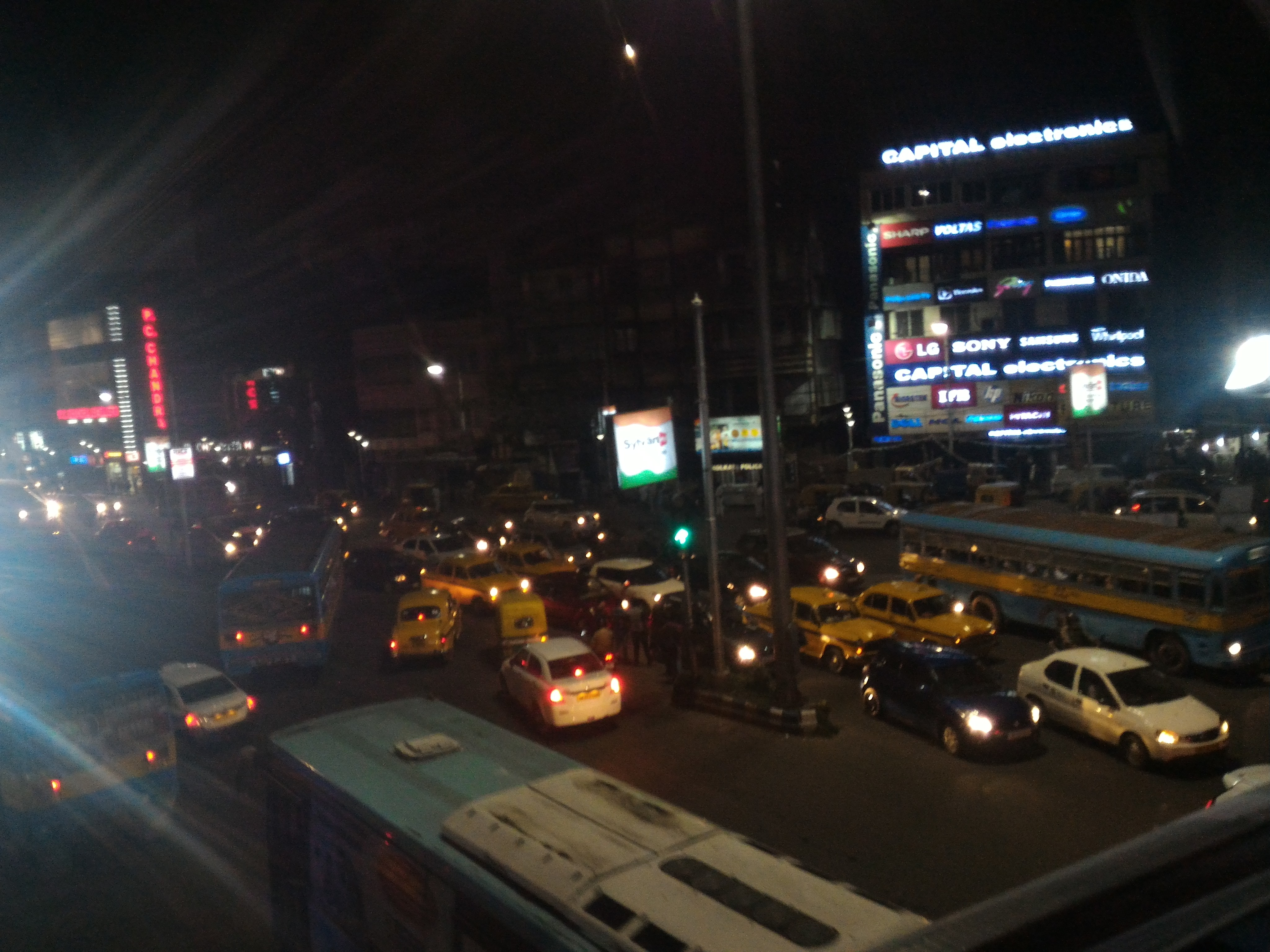 Busy VIP Roat at Ultadanga at Night.